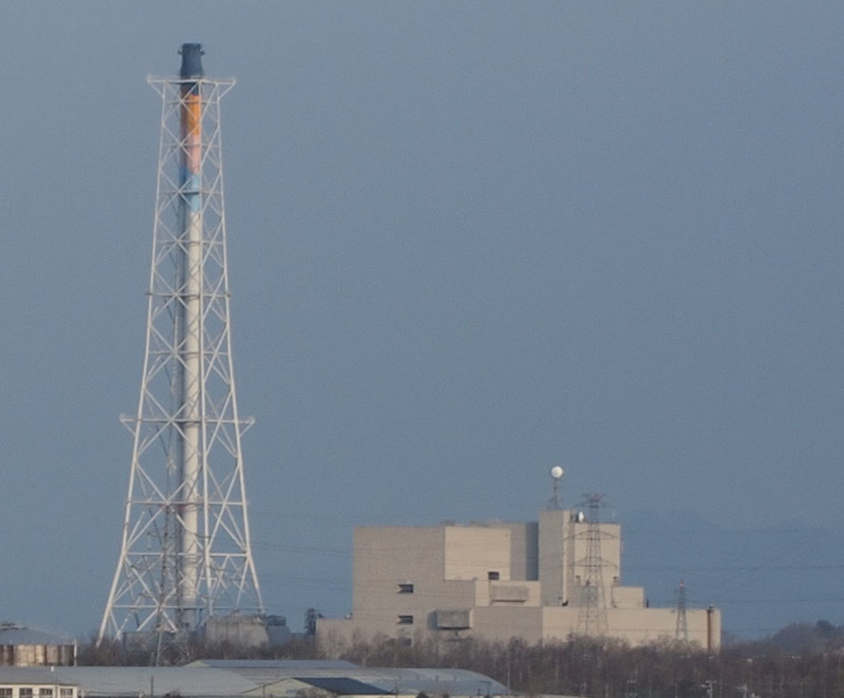 Date power station, Date, Hokkaido, Japan